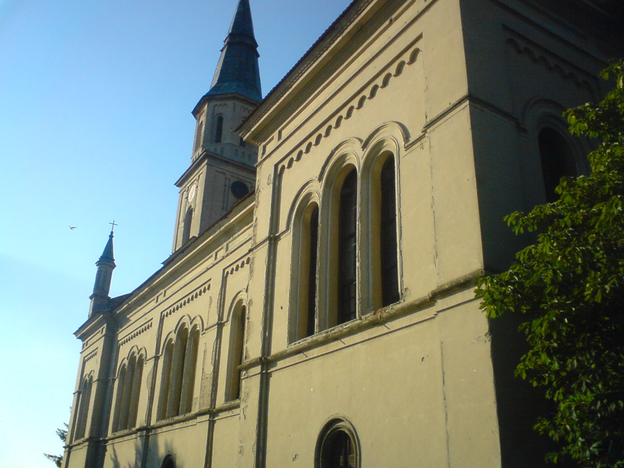 Roman Catholic Church of St. John the Baptist in Ečka, Vojvodina, Serbia.